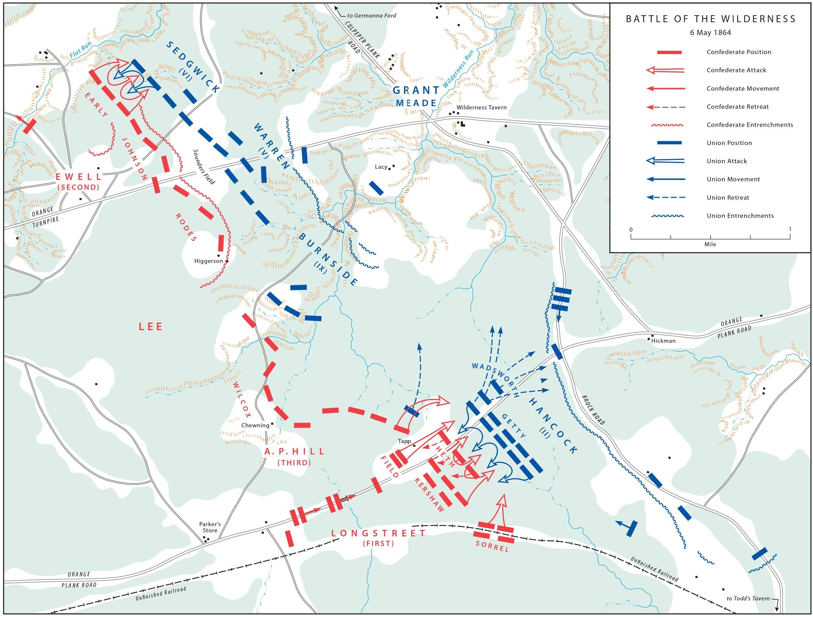 Battle of the Wilderness (May 5-7, 1864). Situation May 6.